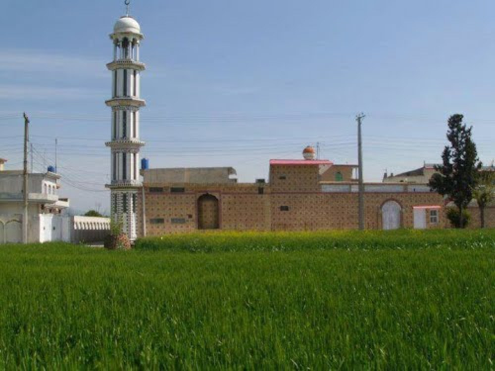 Beautiful View of Dhoke Qazian Masjid